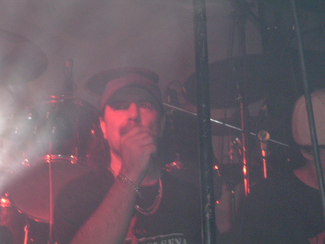 drummer Ireneusz Loth after gig at Łódź (Cube) performing with Kat & Roman Kostrzewski band